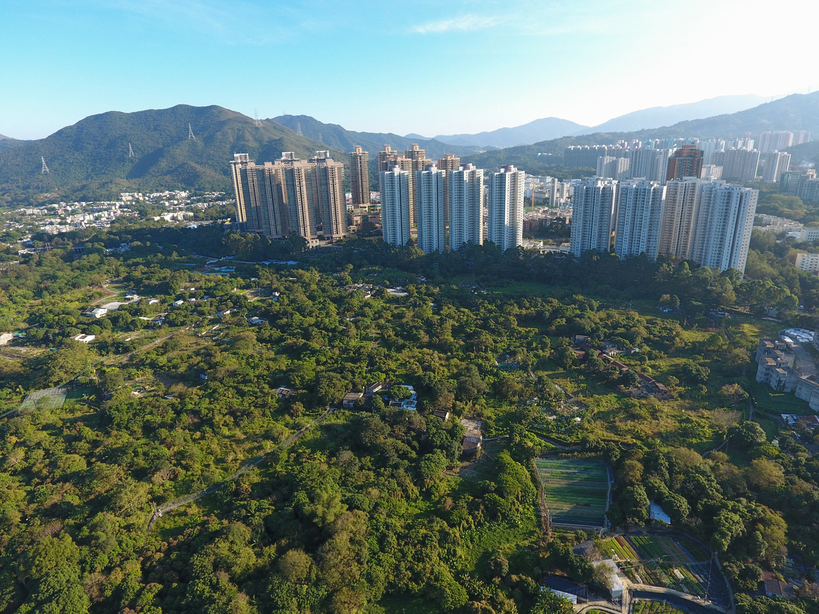 Fanling North New Development Area